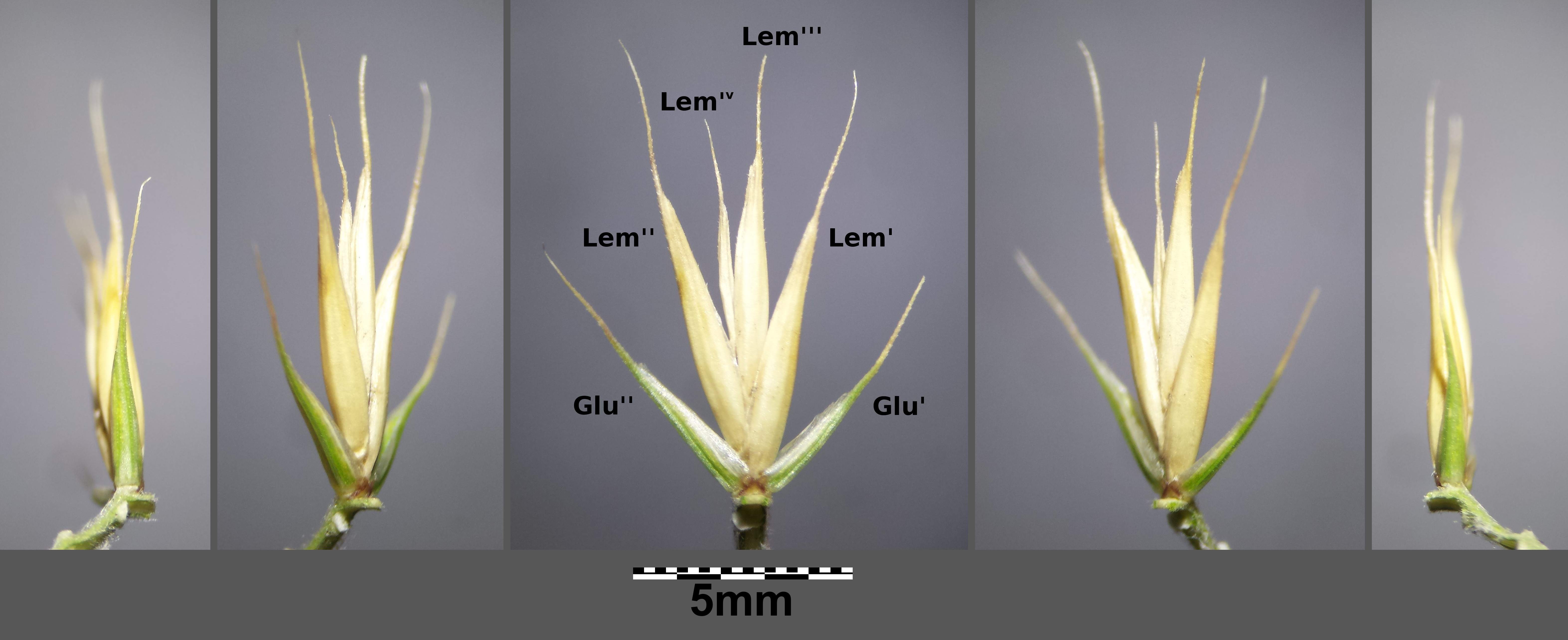 Spikelet Glu = Gluma Lem = Lemma Taxonym: Agropyron pectiniforme ss Fischer et al. EfÖLS 2008 ISBN 978-3-85474-187-9 Location: Neue Donau, district Korneuburg, Lower Austria - ca. 160 m a.s.l. Habitat: dry slope